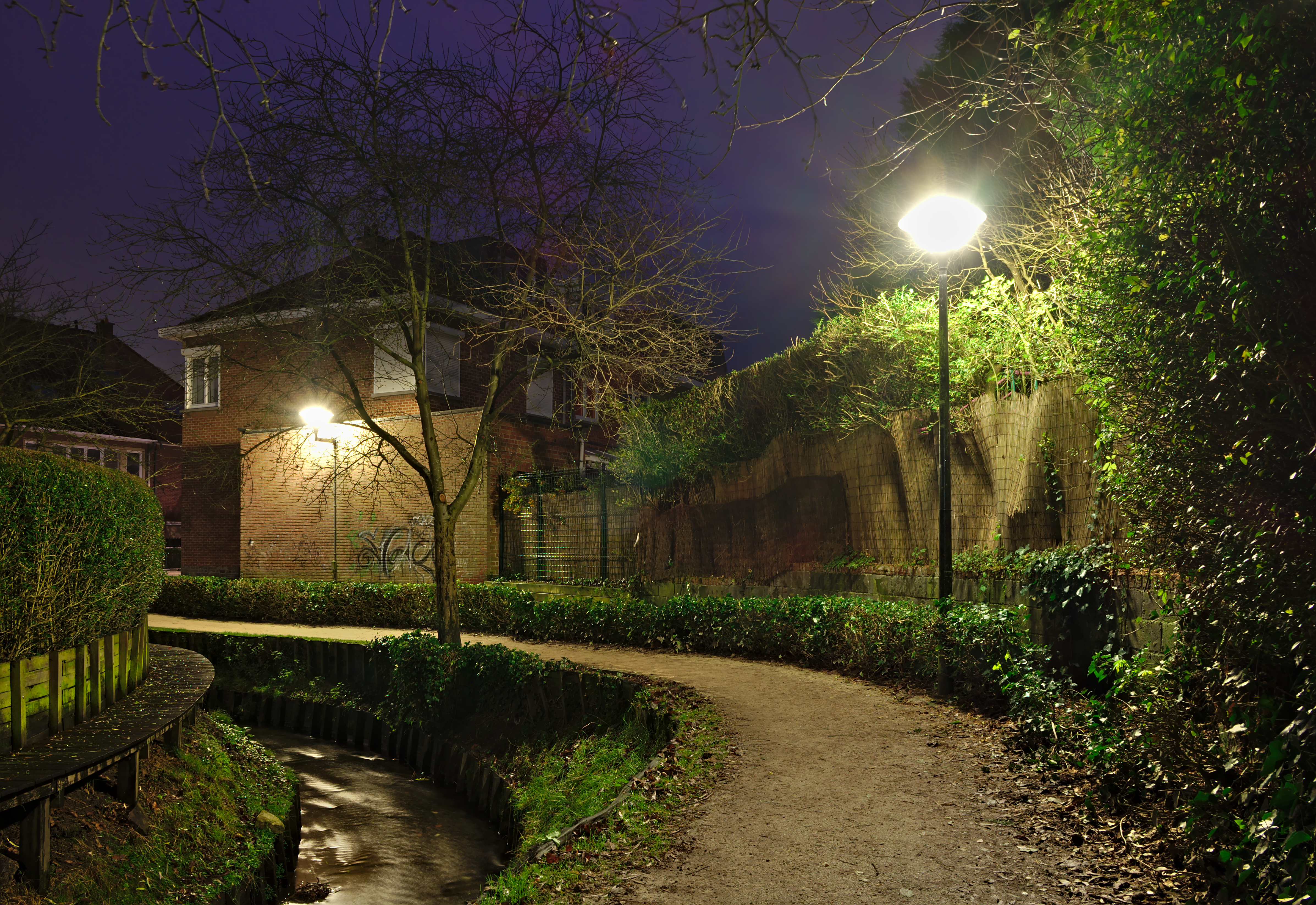 La vallée de la Woluwe walking path between Rue Charles Lemaire and (towards) Clos des Pommiers Fleuris (Auderghem, Belgium) on a December evening (nautical twilight)